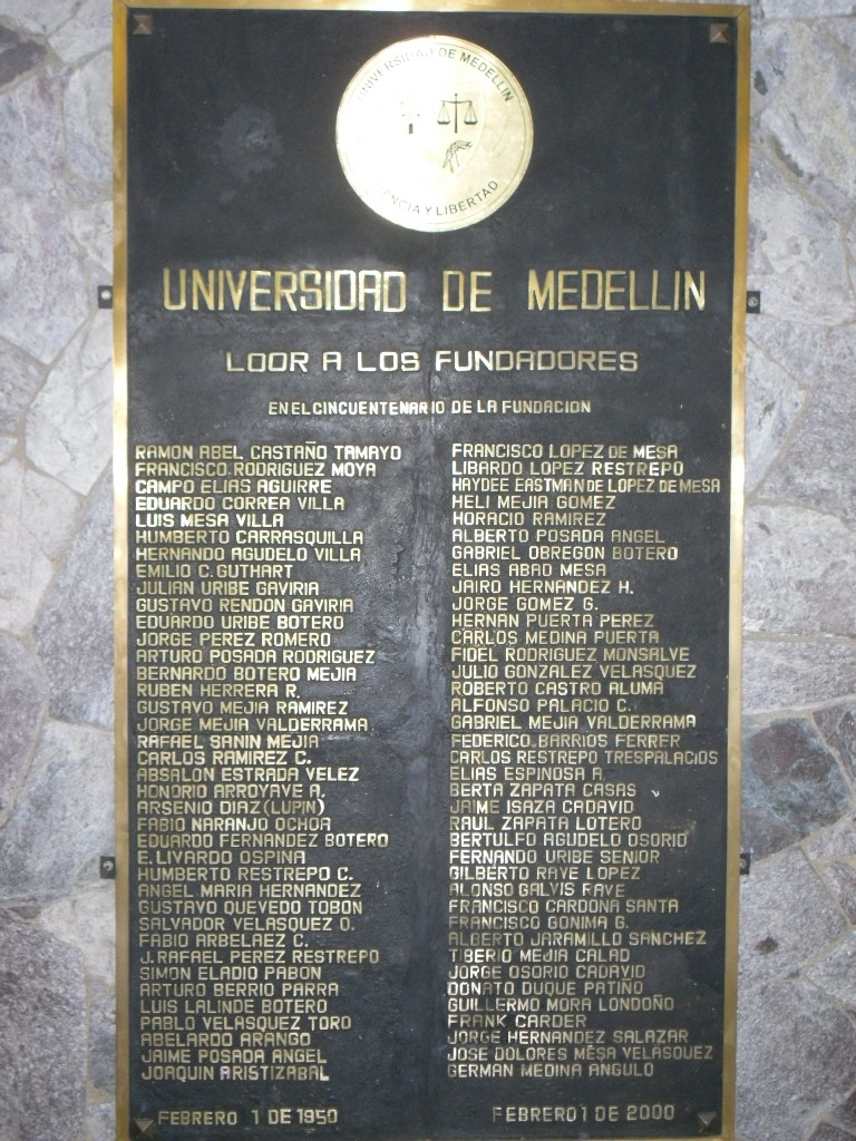 Placa Fundadores UdeM